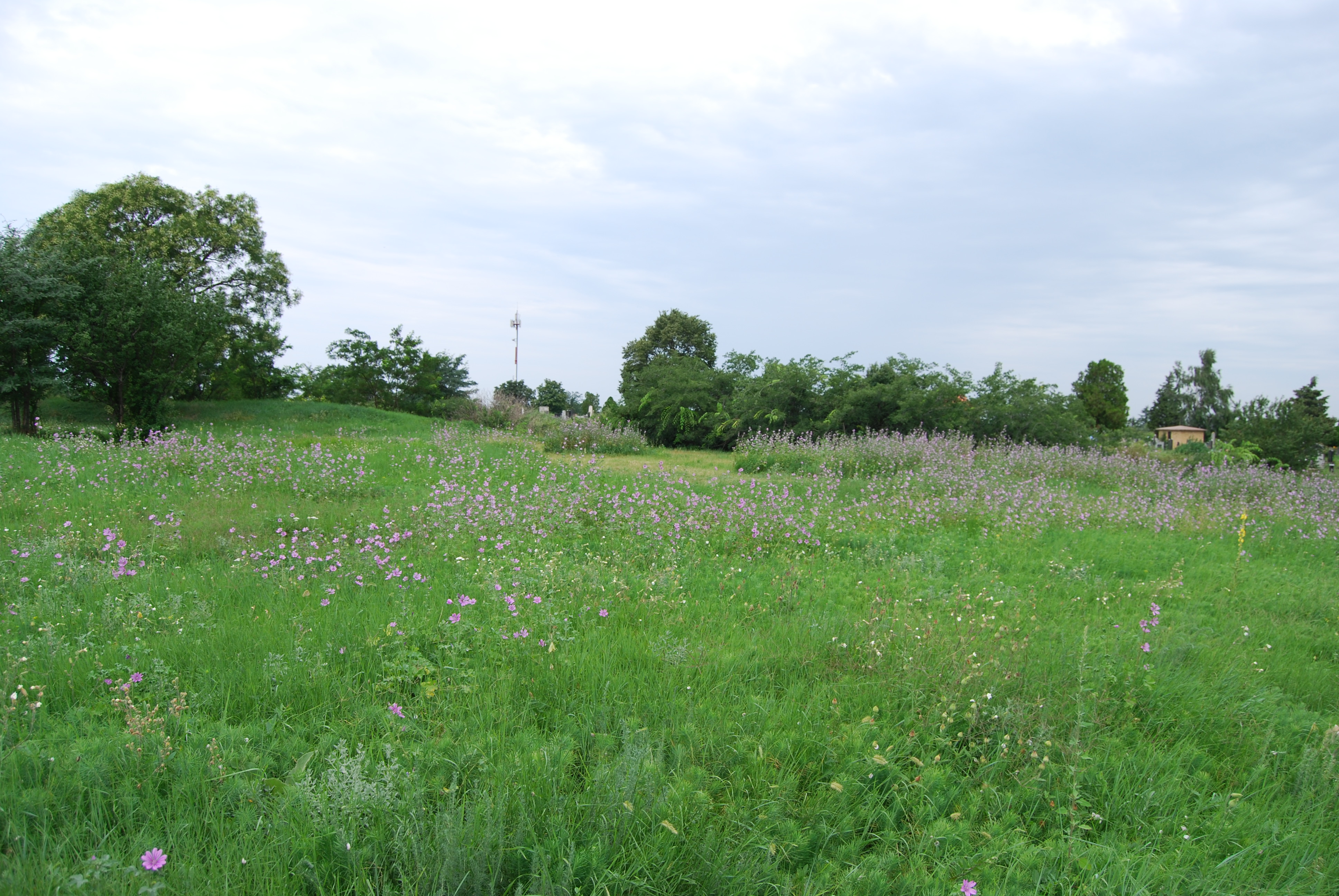 Archeological site in Kalvarija- Titelski breg